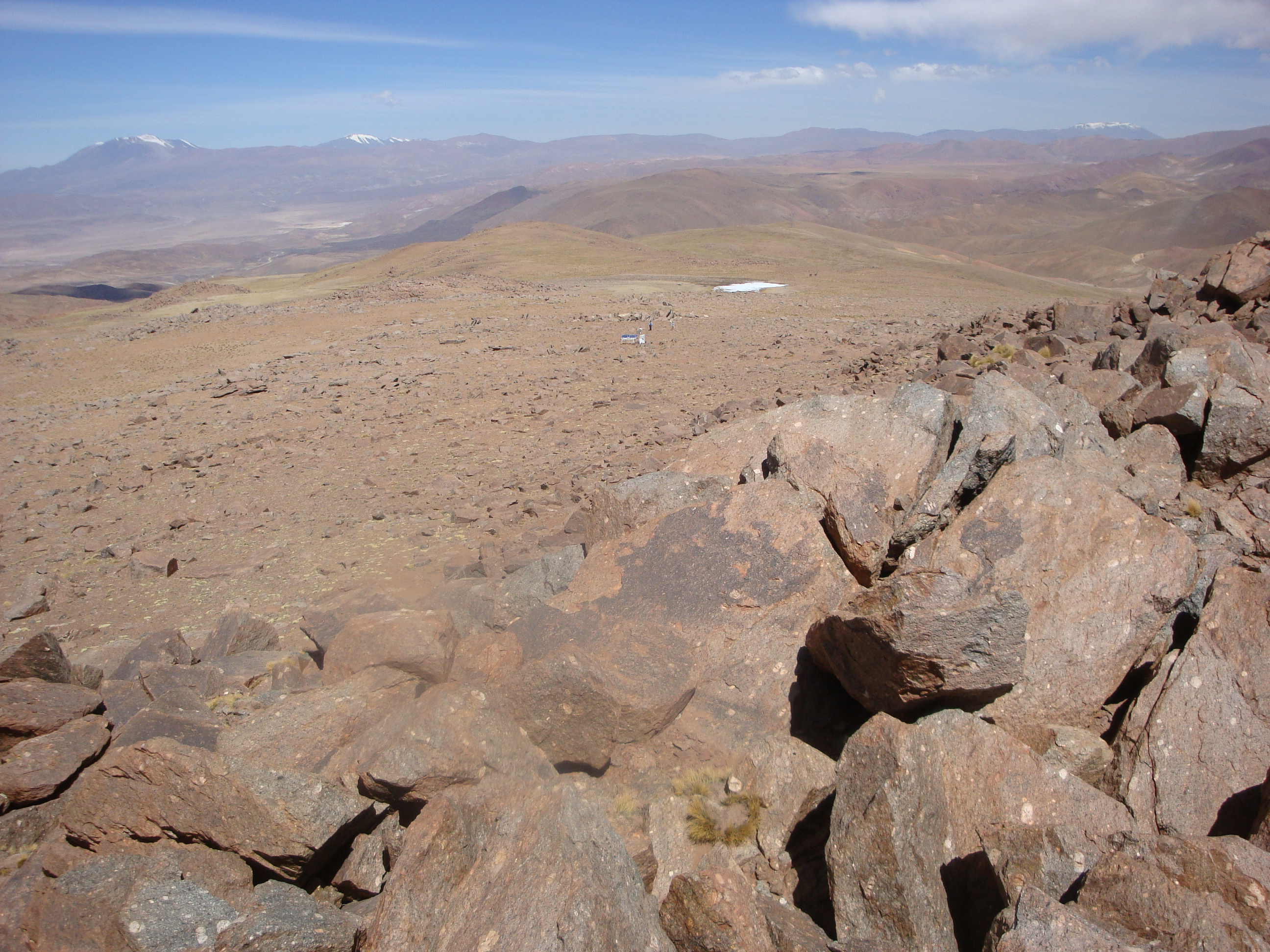 A view from above of the LLAMA site called gorund zero.